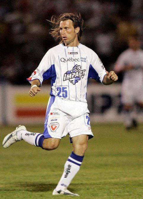 Kolic in 2008